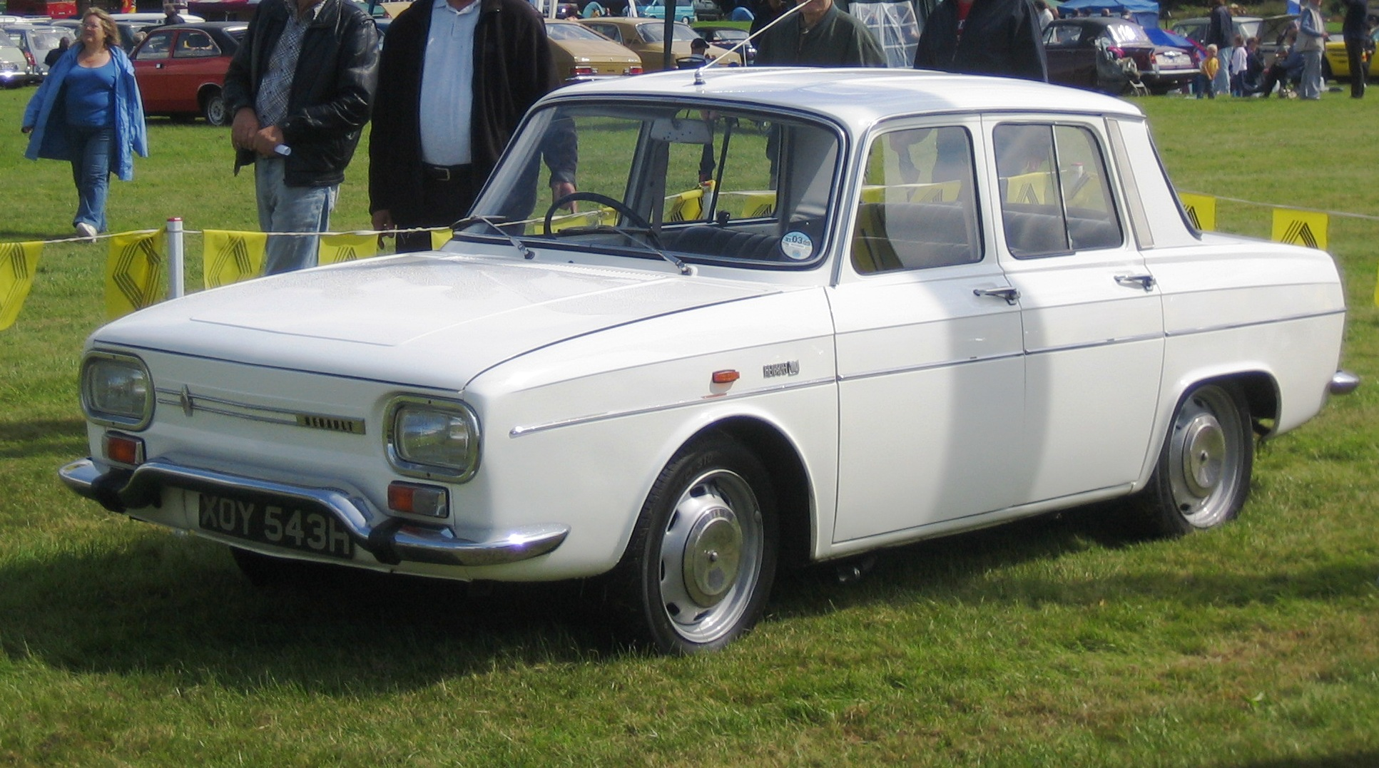 Renault 10 at classic car show in Hertfordshire